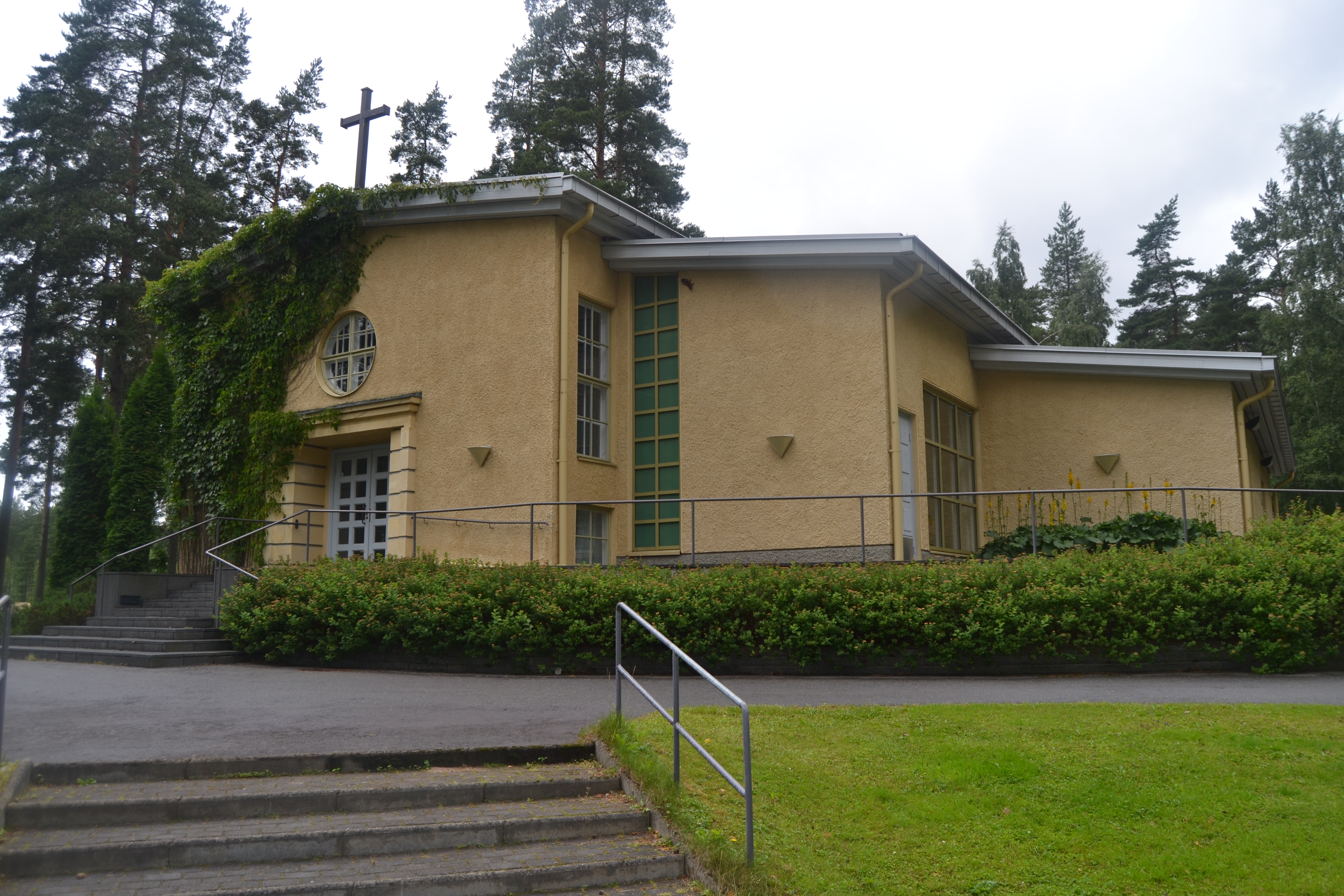 Lahjaharju cemetery chapel in Jyväskylä, Finland